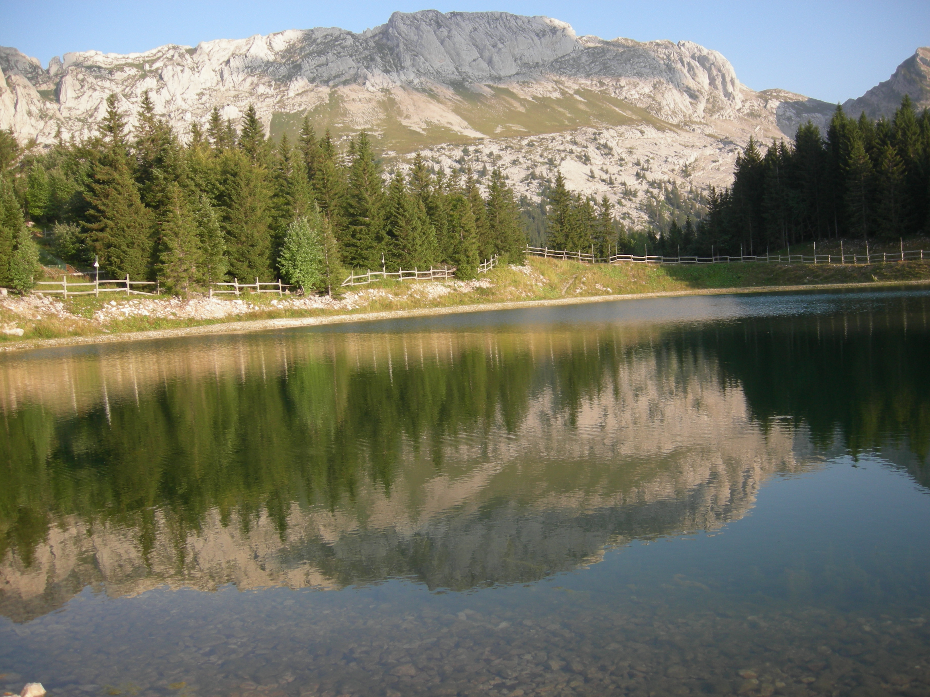 Arêtes du Gerbier